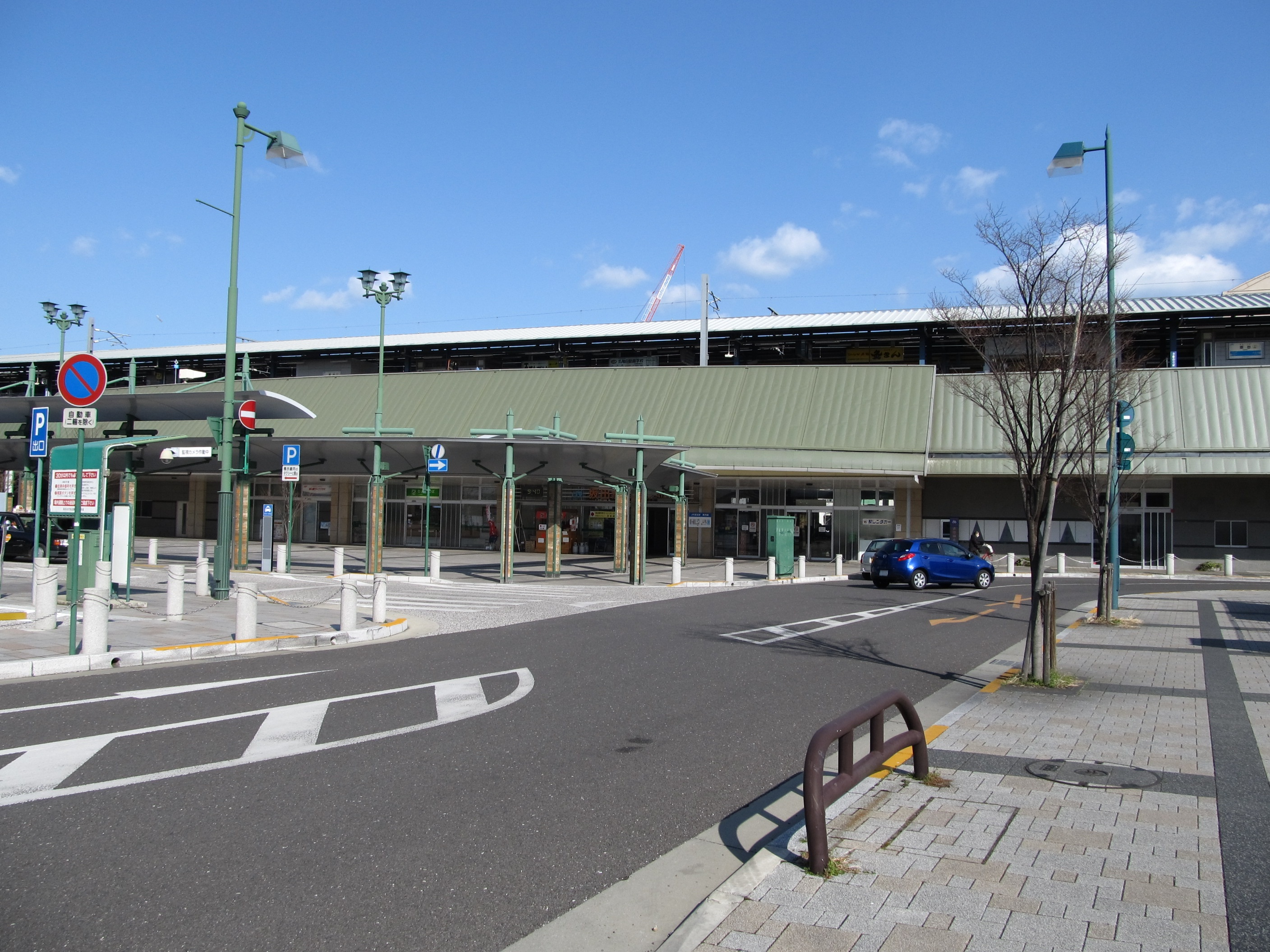 Shikoku Railway Yosan Line Sakaide Station South Gate